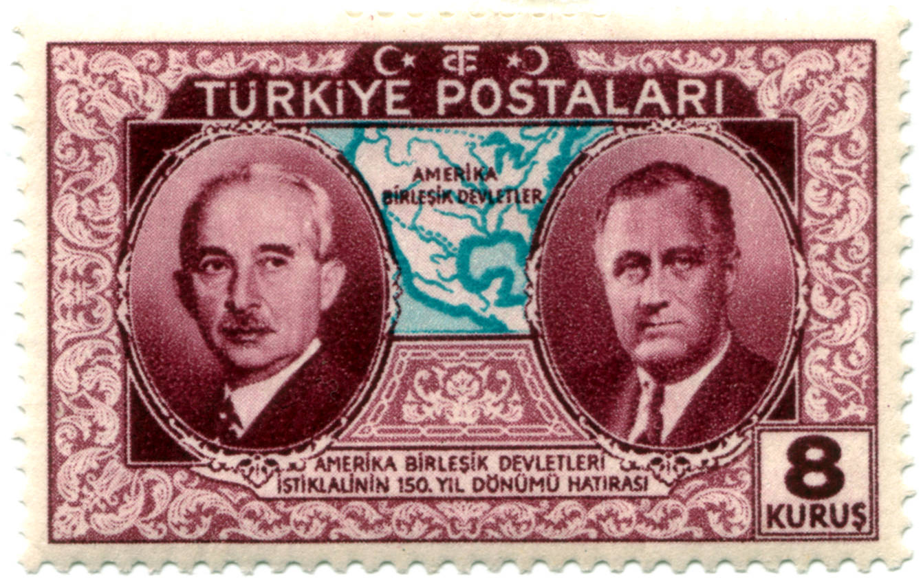 A turkish stamp for the 150. anniversary of the USA with turkish president İsmet İnönü and US-President Franklin D. Roosevelt